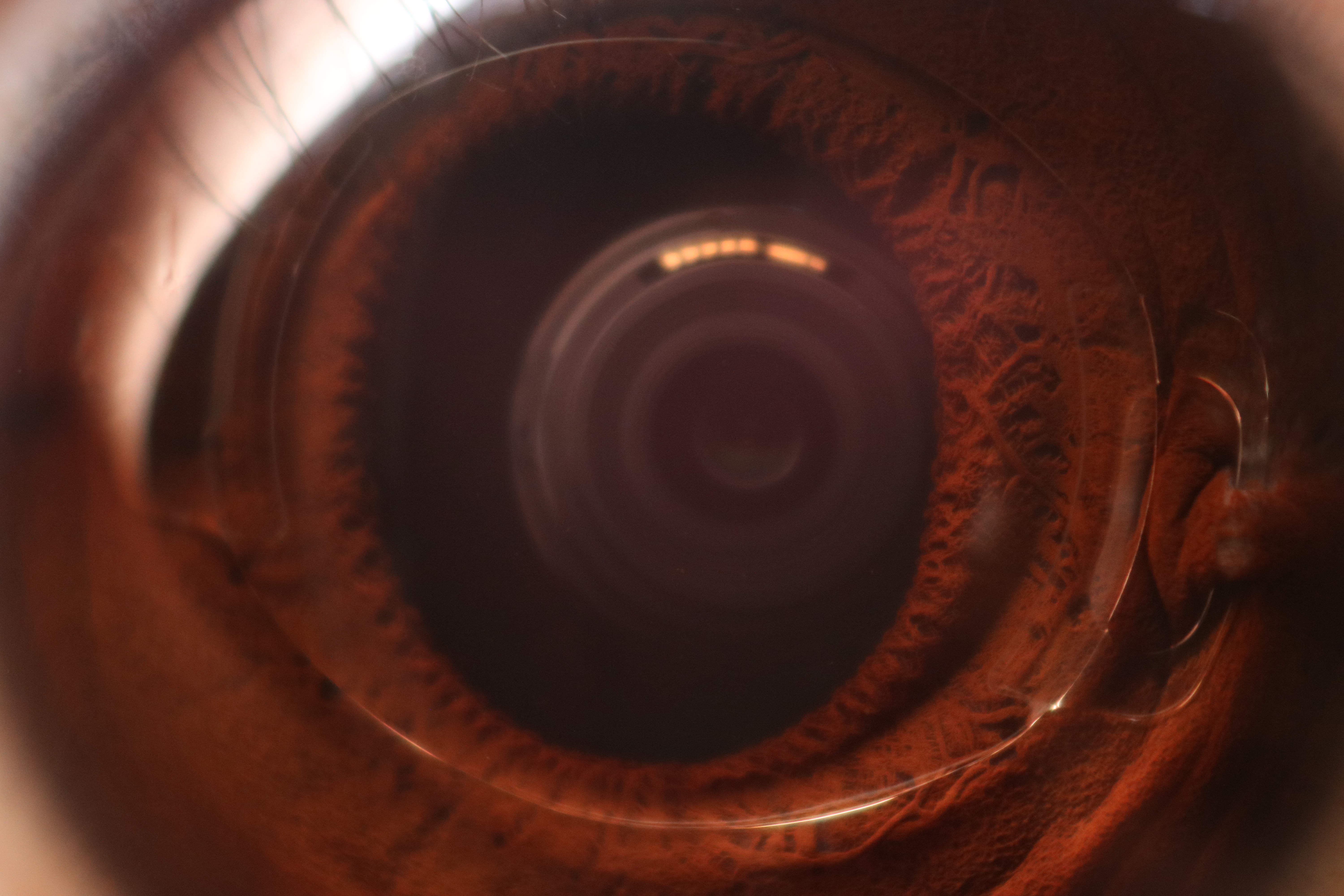 This is a view of an intraocular lens after implantation, taken with flash.